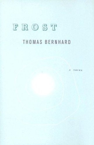 Book cover of Thomas Bernhard "Frost" 1963